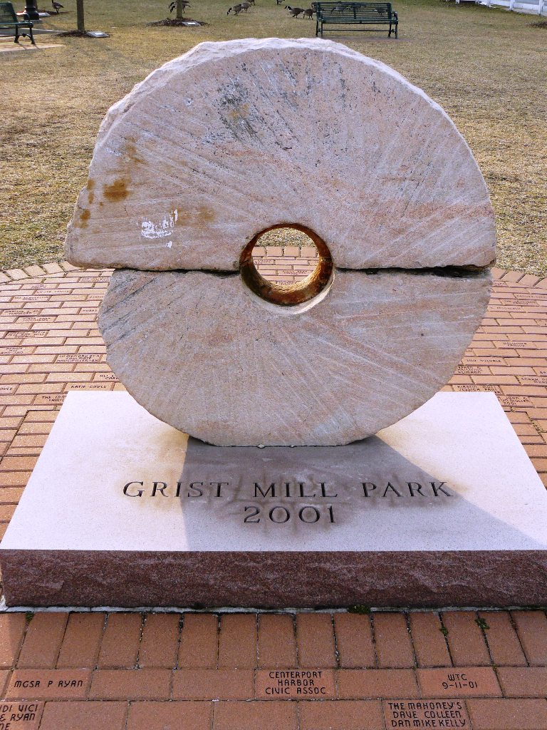 A historic gristmill millstone donated by the Centerport-Greenlawn Historical Society to be the Grist Mill Park centerpiece, at the site in the township of Huntington.